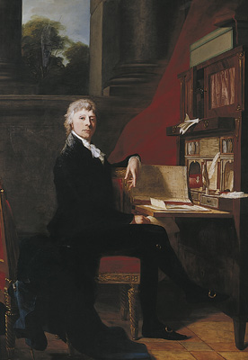 Portrait of the German-Danish merchant Constantin Brun (1746-1836)